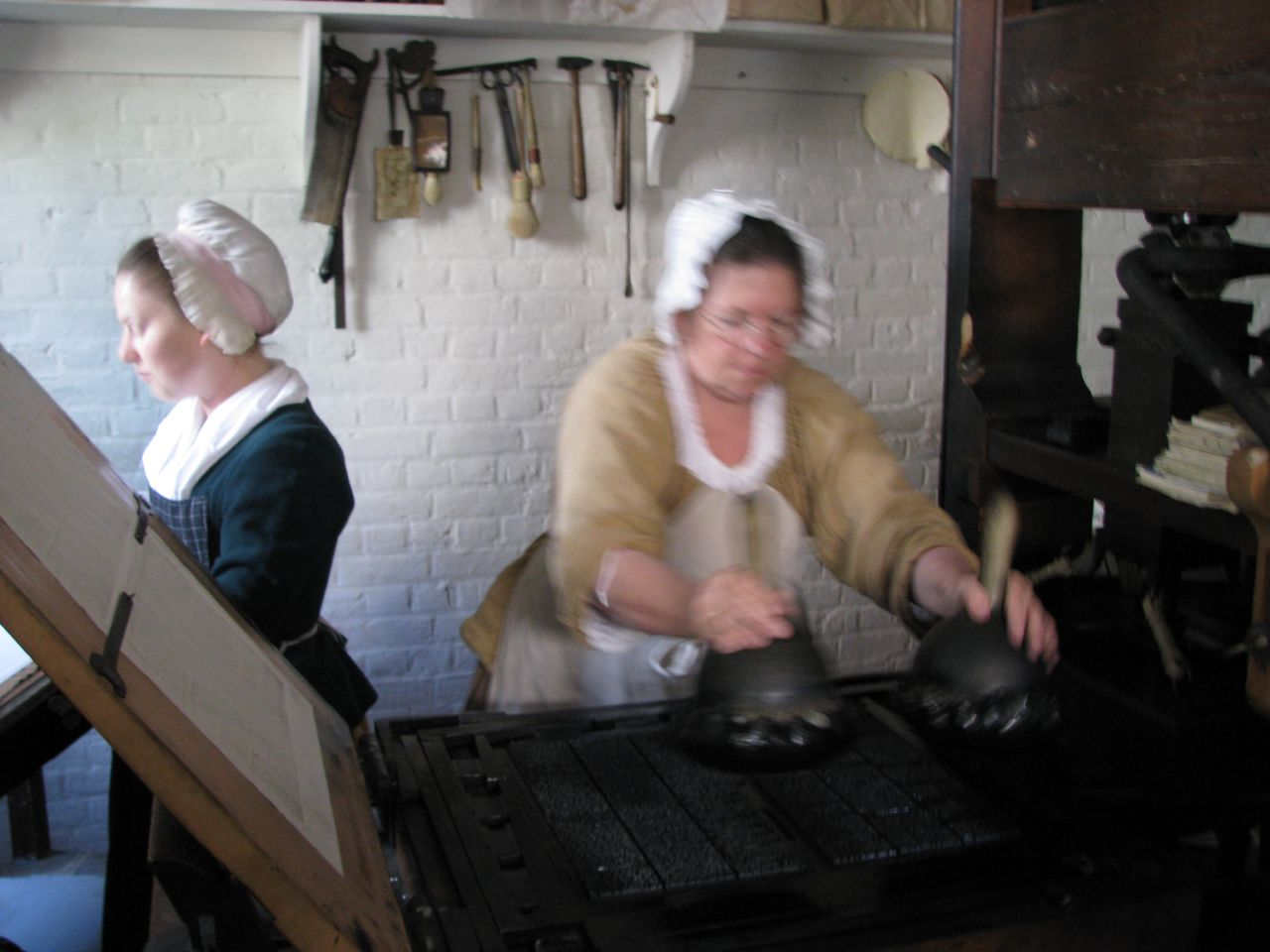 Lady working colonial print shop at Williamsburg, VA